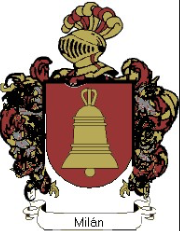 It comes exactly from the name of the city of the same name and was given as a nickname for those who lived in Milan.